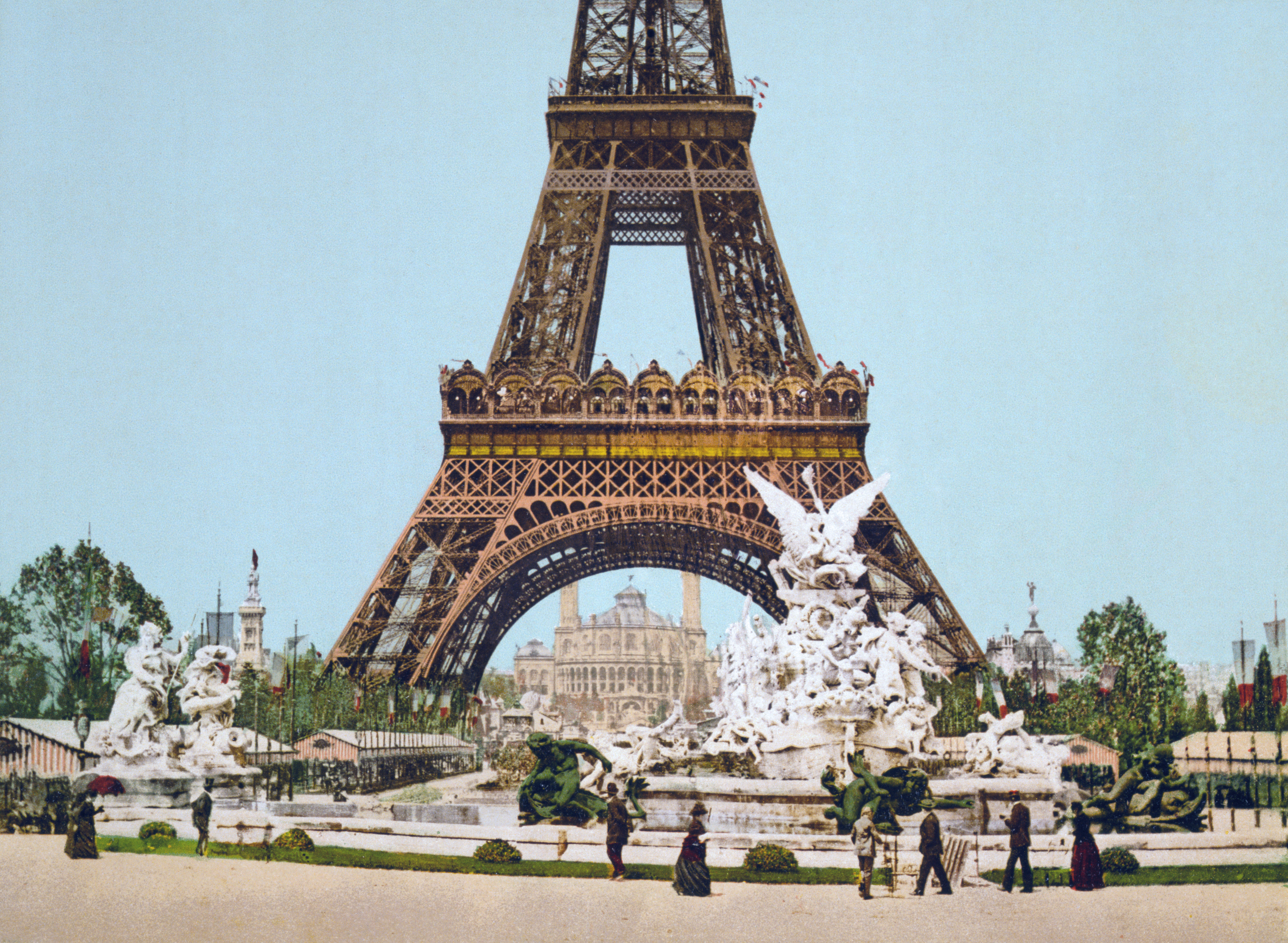 Eiffel Tower and fountain, Exposition Universal, 1889, Paris, France - N.B.: This picture was taken during the Exposition Universelle 1889 and NOT 1900. See File talk.